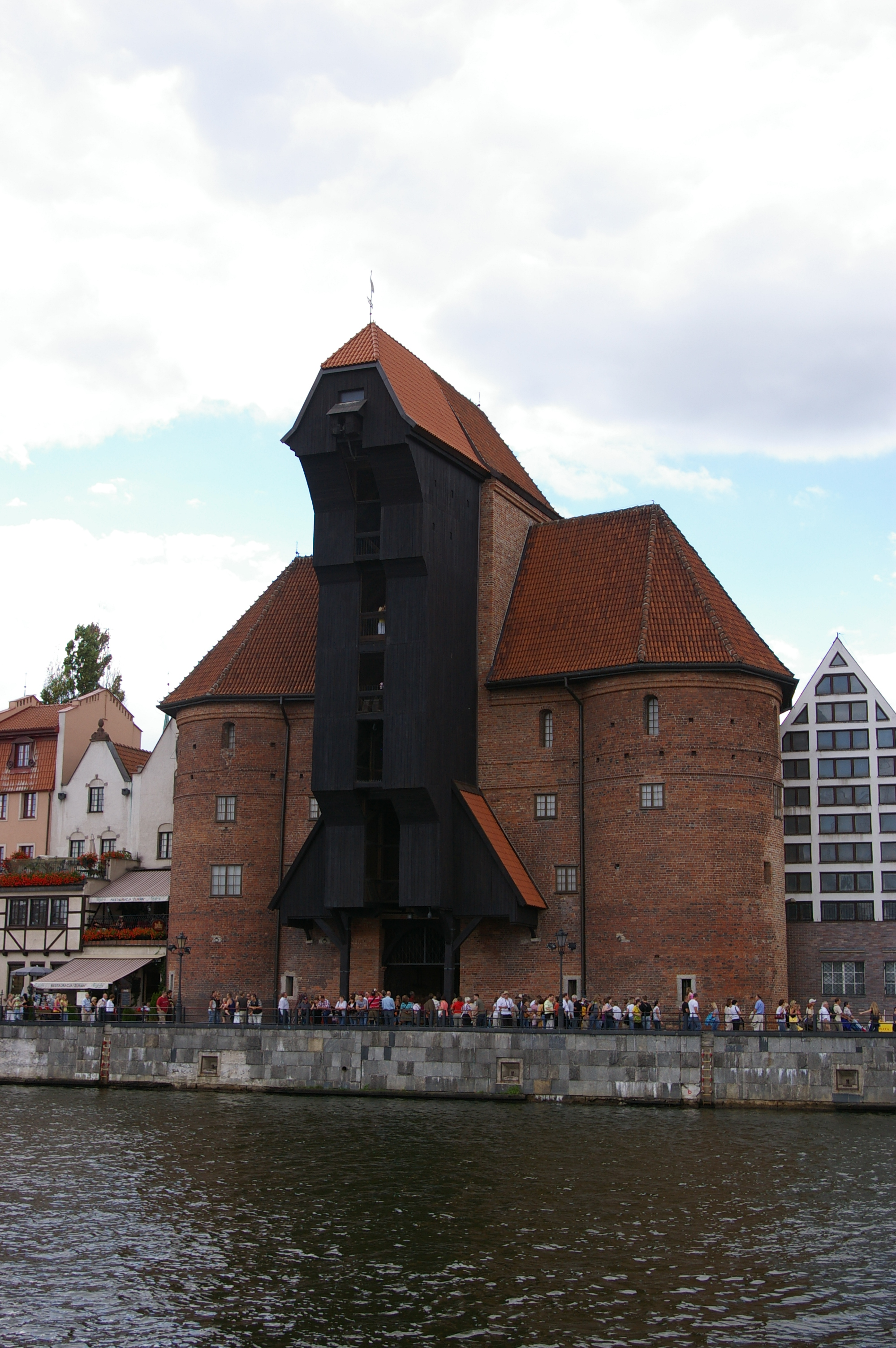 Żuraw Gate in the Main Town of Gdańsk